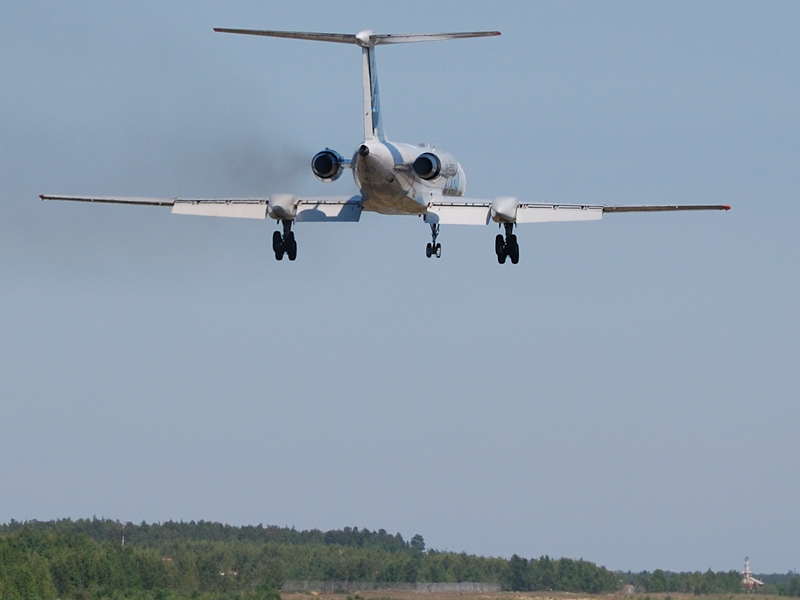 Landing of Tu-134A RA-65902 UTair, Russia, Surgut USRR